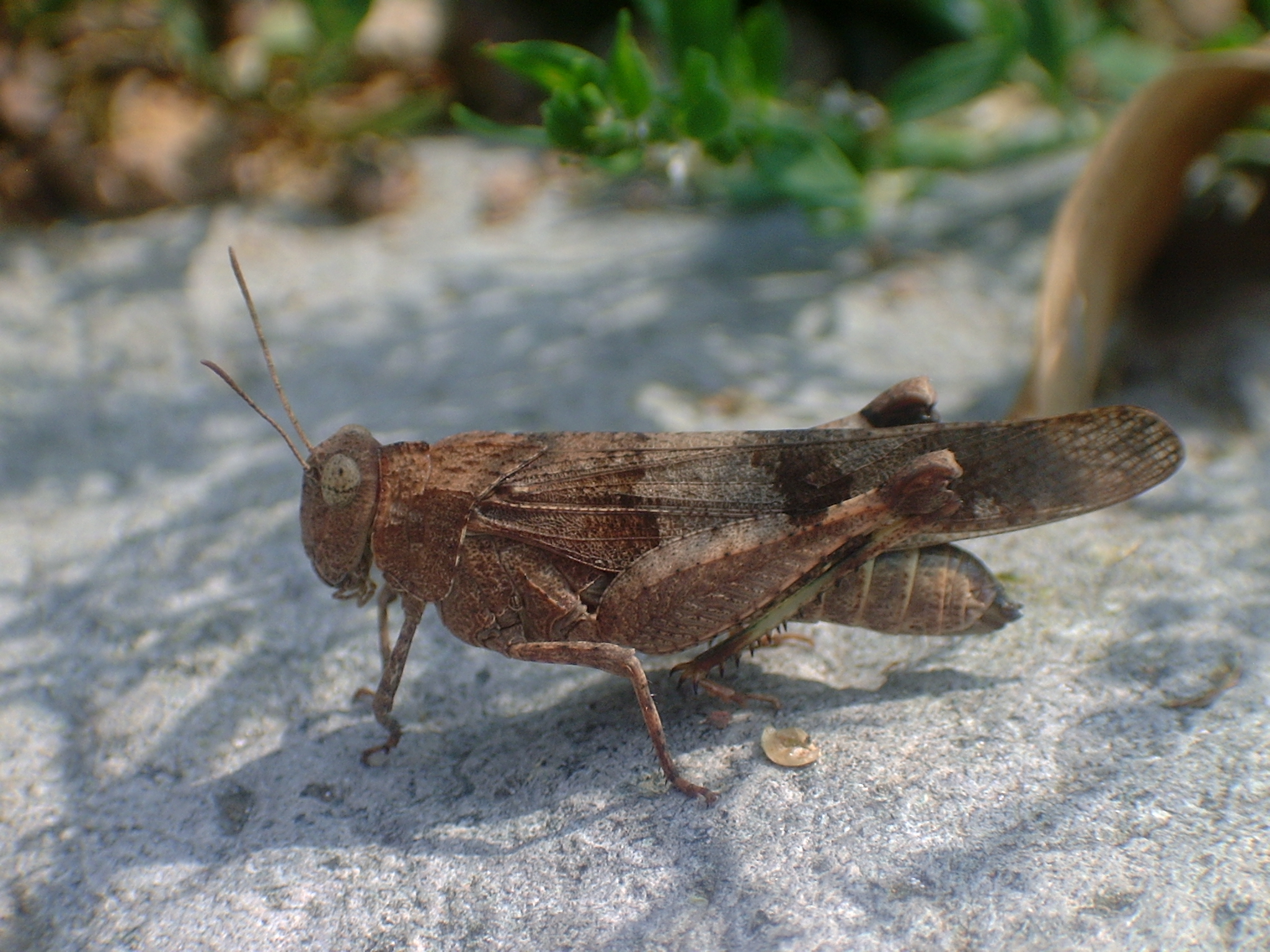 Oedipoda caerulescens or Oedipoda germanica. Taken by me somewhere in Switzerland in 2004.